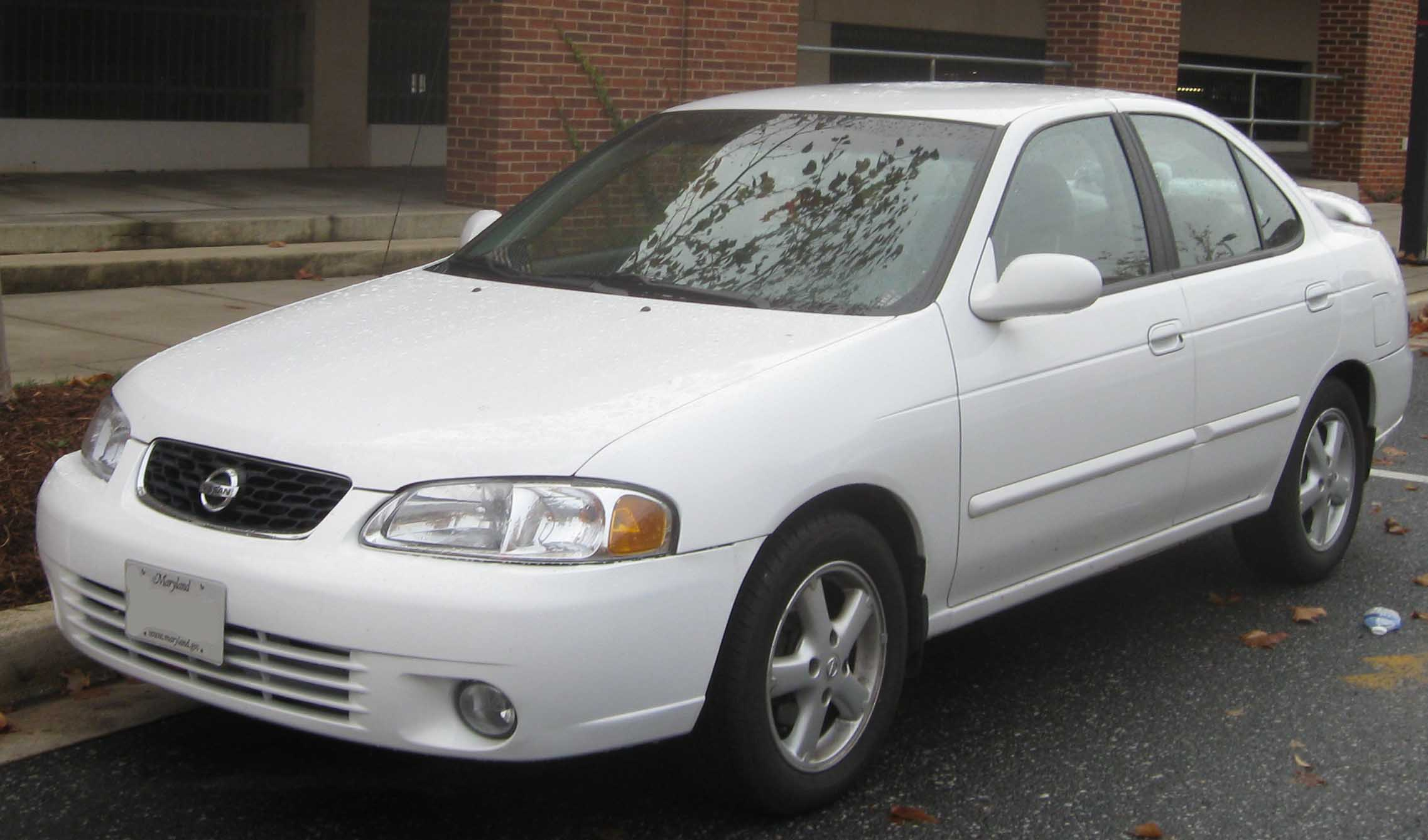 2000-2003 Nissan Sentra photographed in College Park, Maryland, USA.